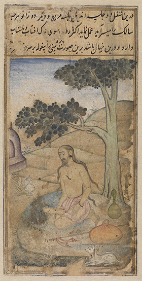 Painting of yoga asana Virasana in Persian manuscript Bahr al-hayat c. 1602